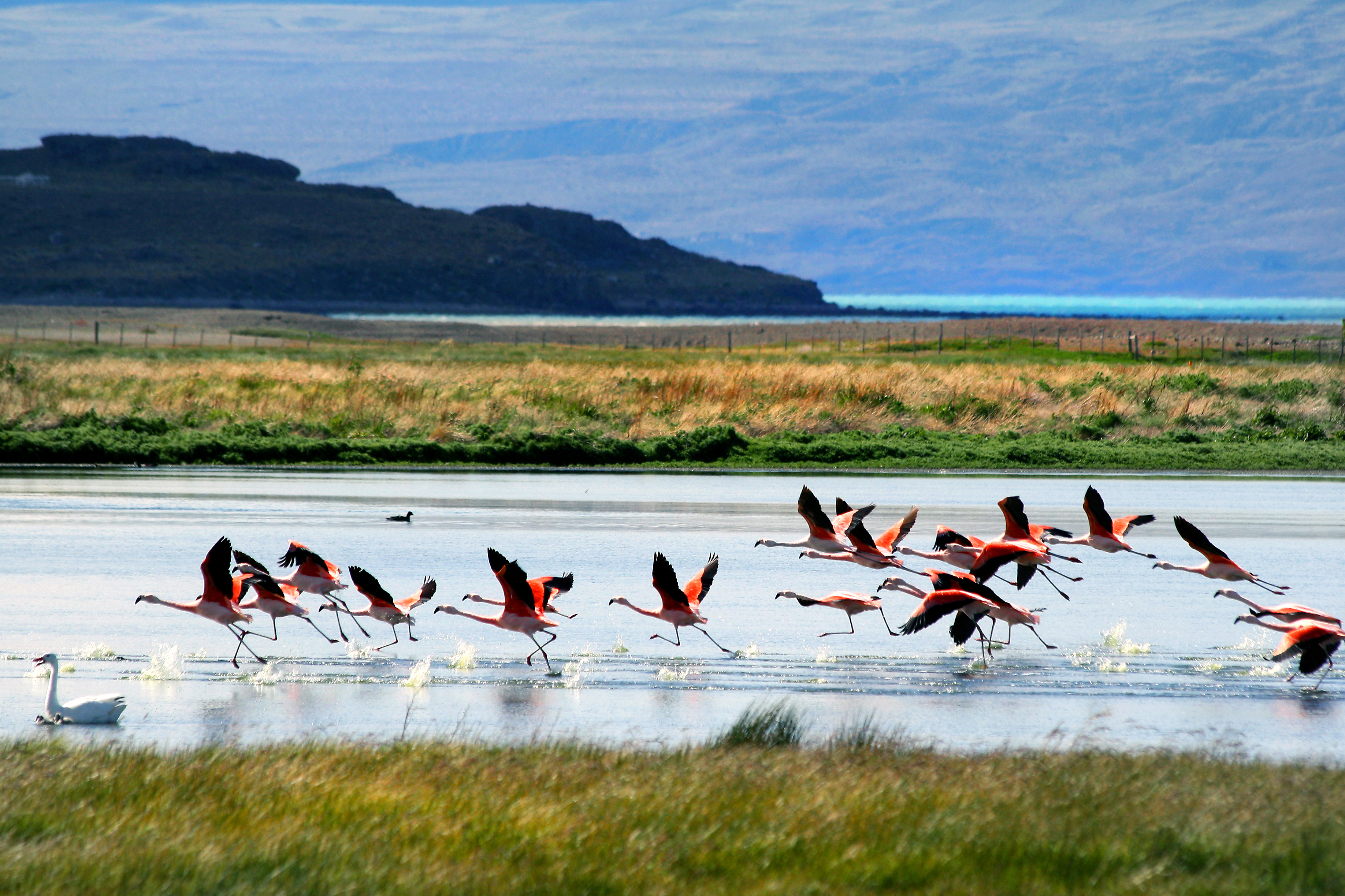 Lago Argentino is a lake in the Patagonian province of Santa Cruz, Argentina. It is the biggest freshwater lake in Argentina, with a surface area of 1,466 km2 (566 sq mi) (maximum width: 20 mi (32 km)). It has an average depth of 150 m (492 ft), and a maximum depth of 500 m (1,640 ft). The lake lies within the Los Glaciares National Park, in a landscape with numerous glaciers and is fed by the glacial meltwater of several rivers, the water from Lake Viedma brought by the La Leona River, and many mountain streams. Its drainage basin amounts to more than 17,000 km2 (6,564 sq mi). Waters from Lake Argentino flow into the Atlantic Ocean through the Santa Cruz River. The glaciers, the nearby town of El Calafate and the lake itself are important tourist destinations. The lake in particular is appreciated for fishing. Perch, common galaxias, "puyen grande", lake trout and rainbow trout — in both anadromous and Potamodromous forms — are all found. - wikipedia